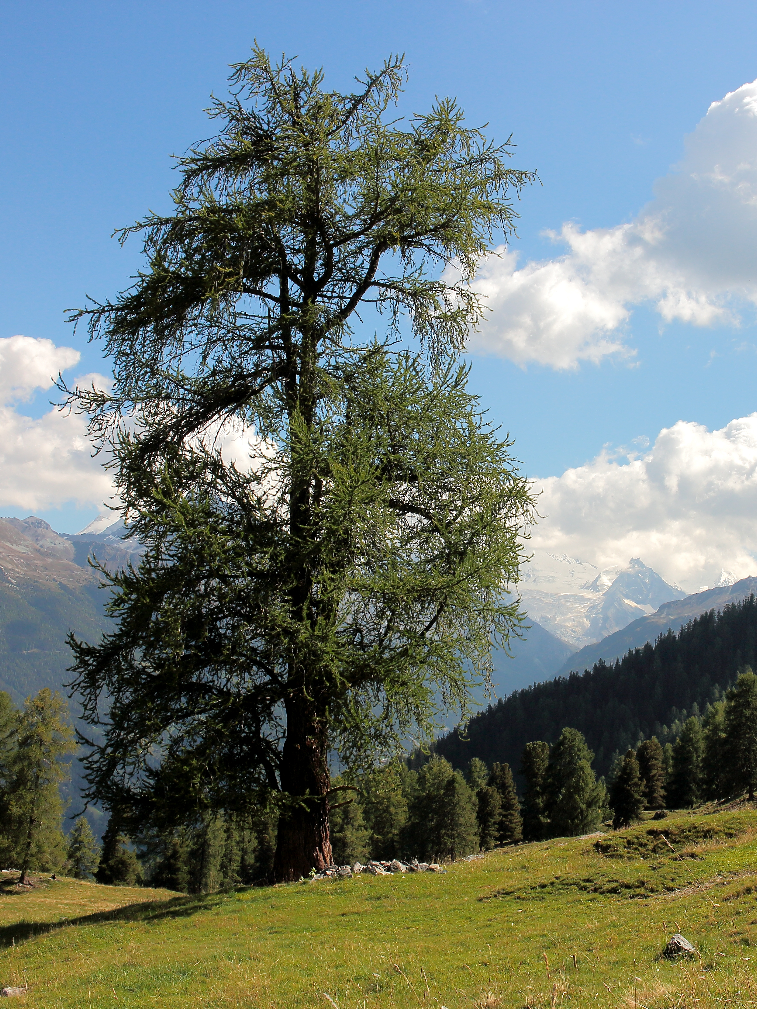 European larch (Larix decidua) in the Alps Orzival (2100 m).